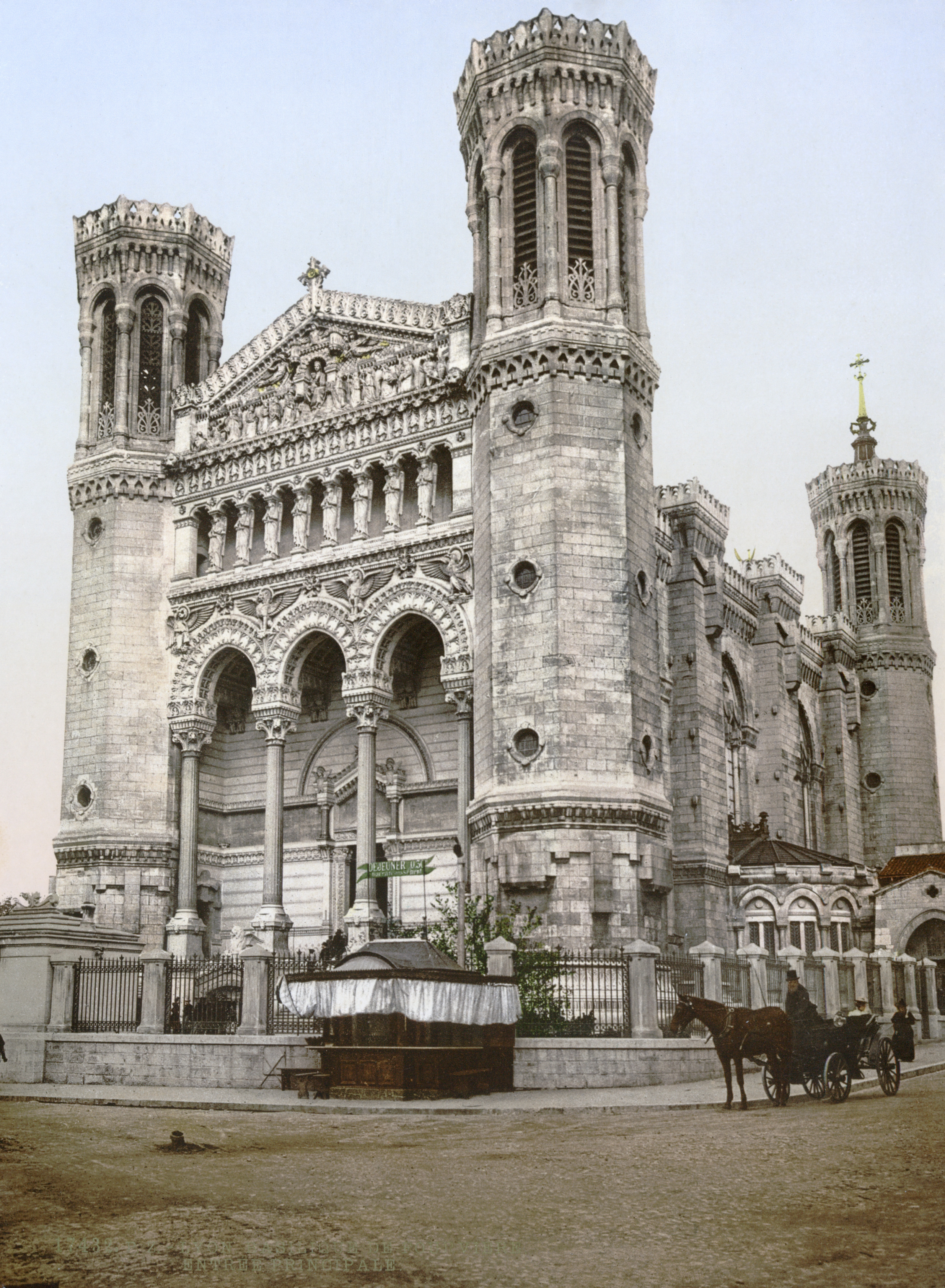 Basilica Fourviere, main entrance, Lyons, France